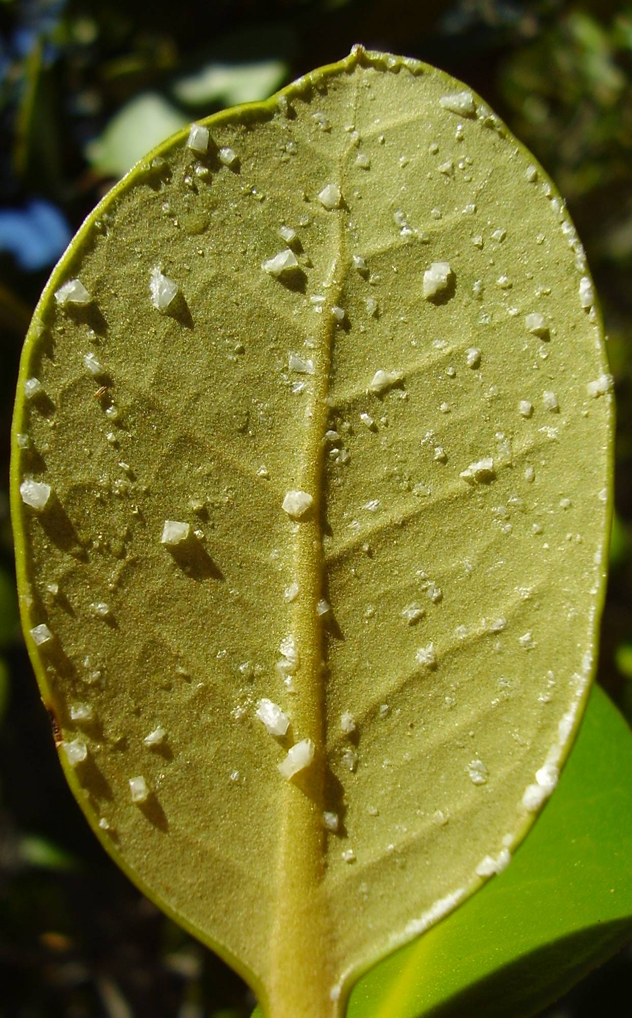 Photo taken on the mangrove walk St Kilda, South Australia